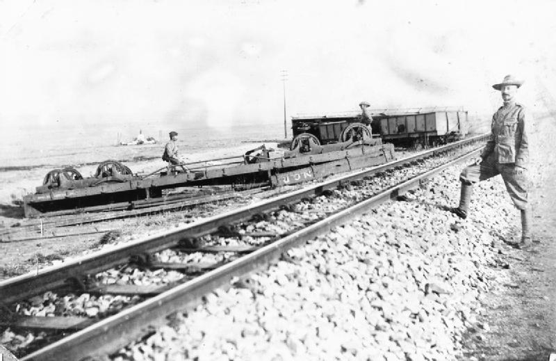 The Second Anglo - Boer War, 1899-1902 Remains of the armoured train ambushed by General Louis Botha's Commando near the Blaauw Kranz River, Natal, on 15 November 1899. The grave of four members of the Border Regiment killed in the attack can be seen in the left middle distance.